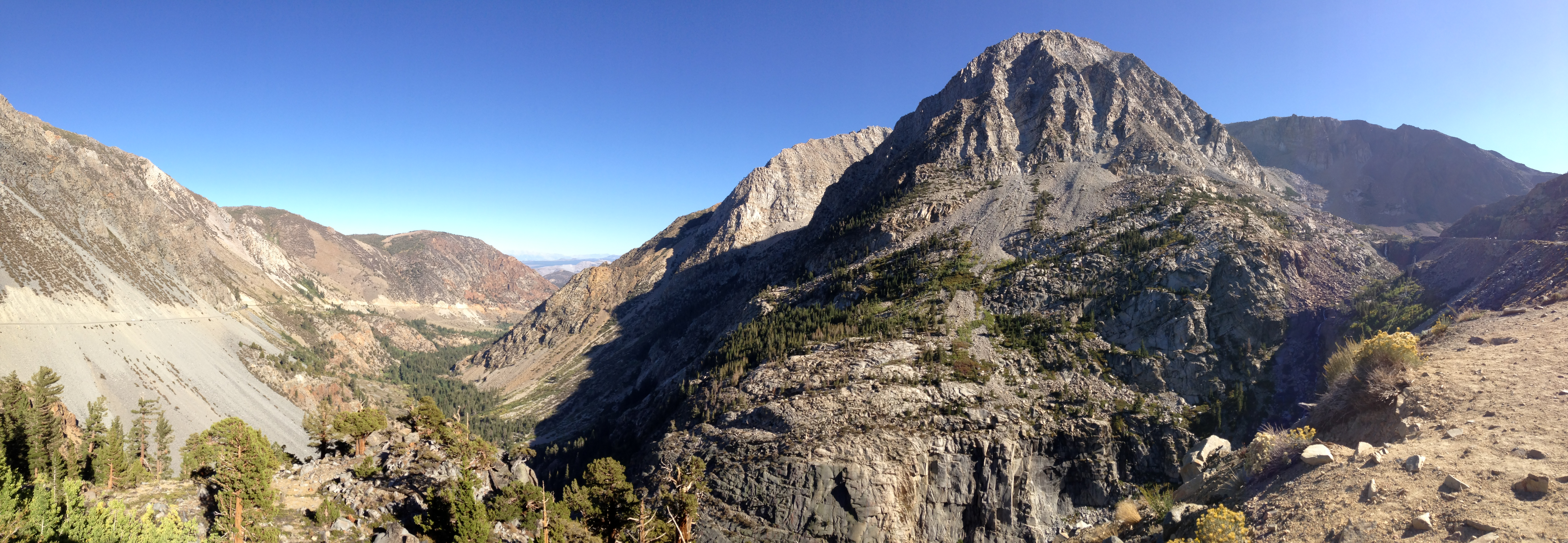 Panorama of Lee Vining Canyon from California State Route 120